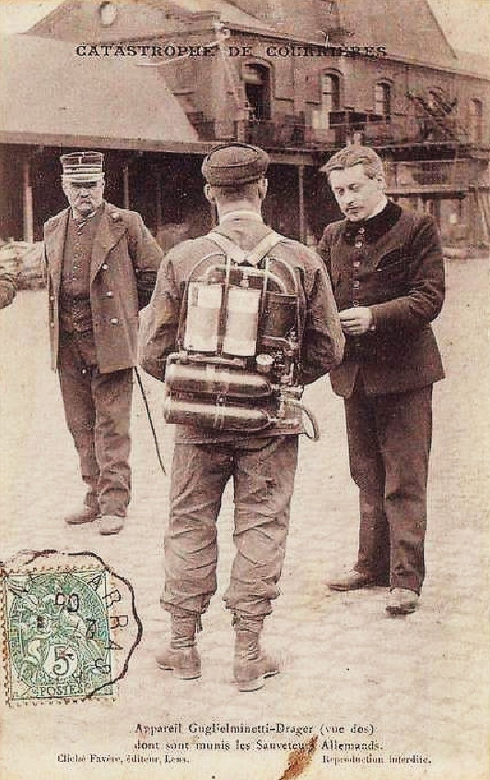 Courrières mine disaster, the tenth march 1906, in the towns of Billy-Montigny, Sallaumines, Méricourt and Noyelles-sous-Lens.